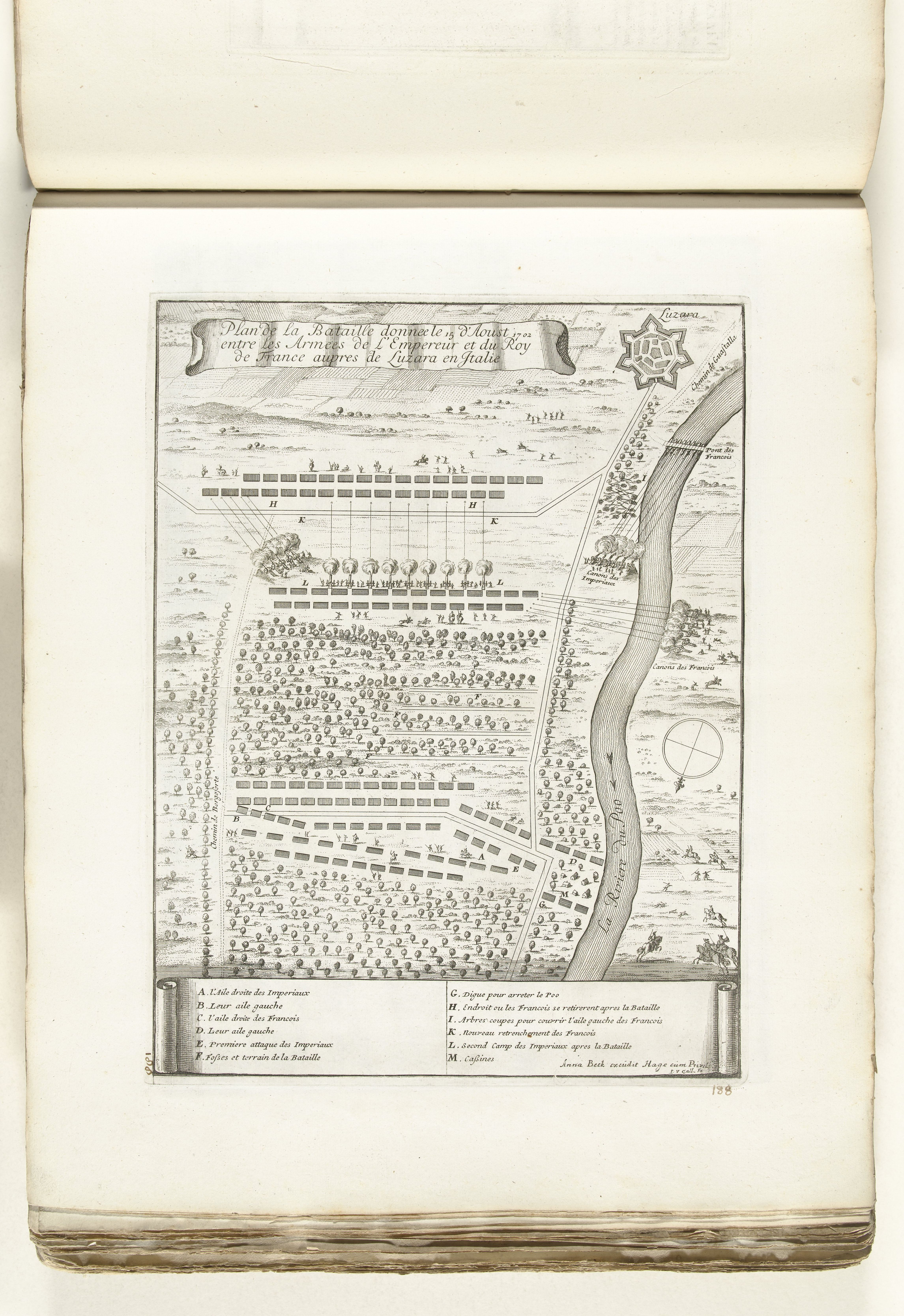 Plan of the battle of Luzzara, 15 August 1702